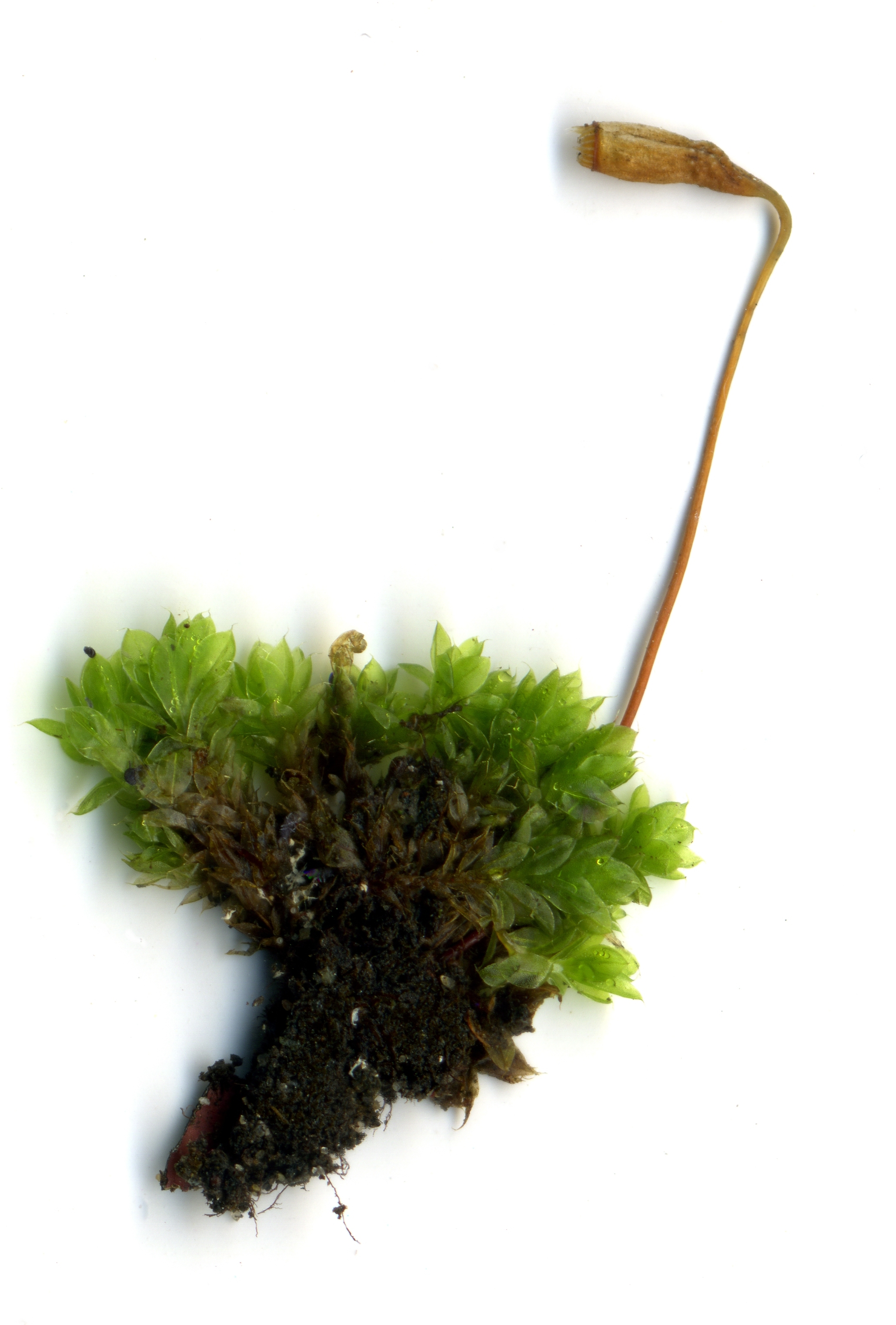 Flat bed scan of moss plants with a sporangium